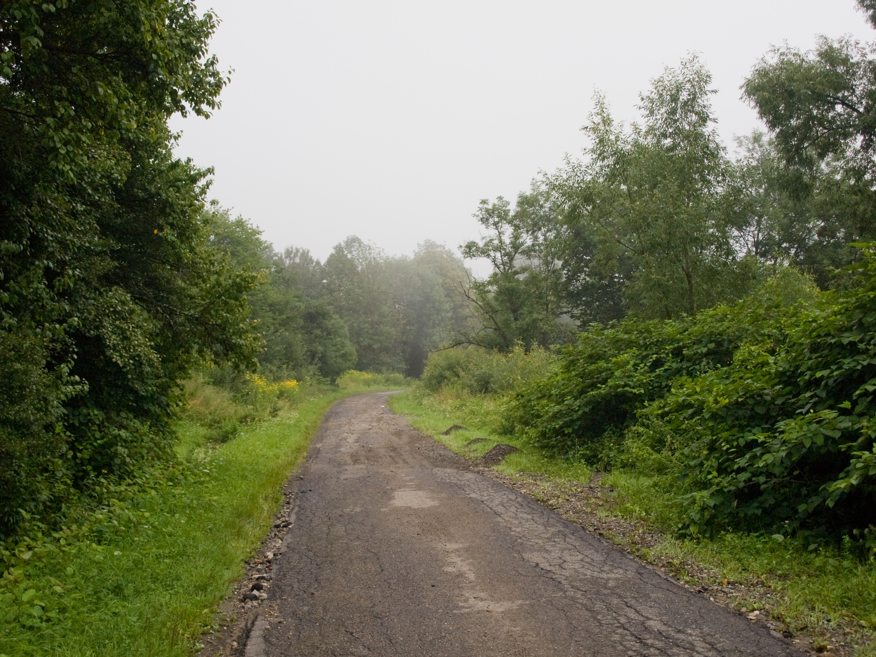 Road, Kotów, Subcarpathian Voivodeship